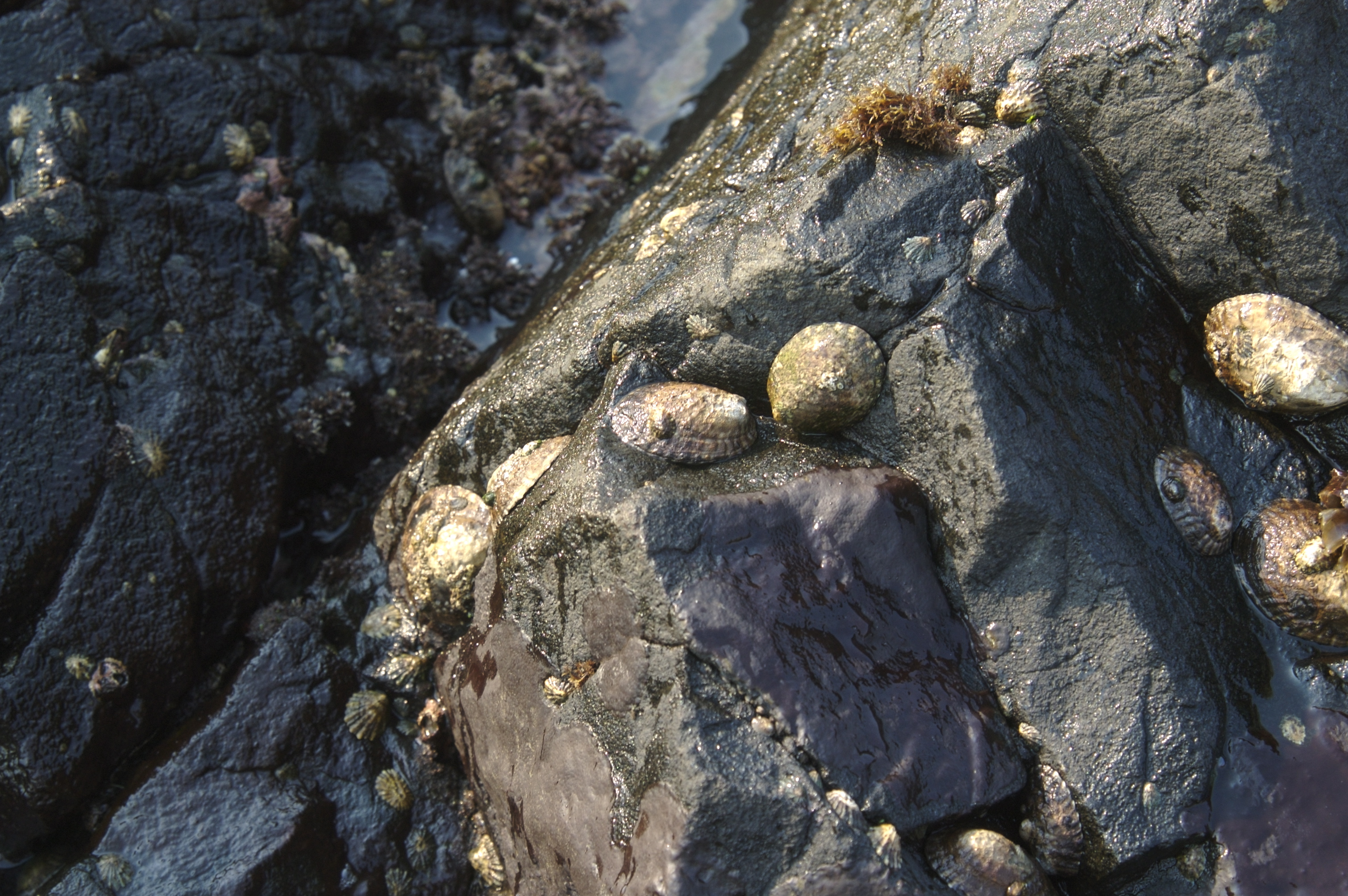 Habitat of Lottia gigantea. There are more Lottia gigantea (Owl's Limpets) in this protected place because humans can not get to them to eat them.